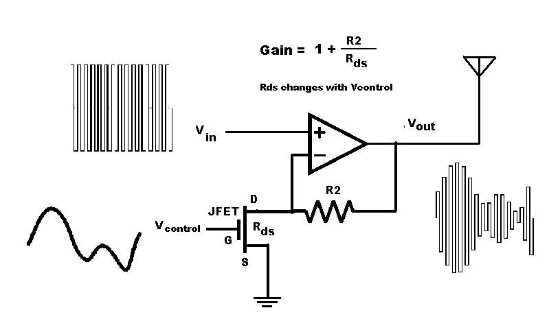 Amplitude modulation circuit